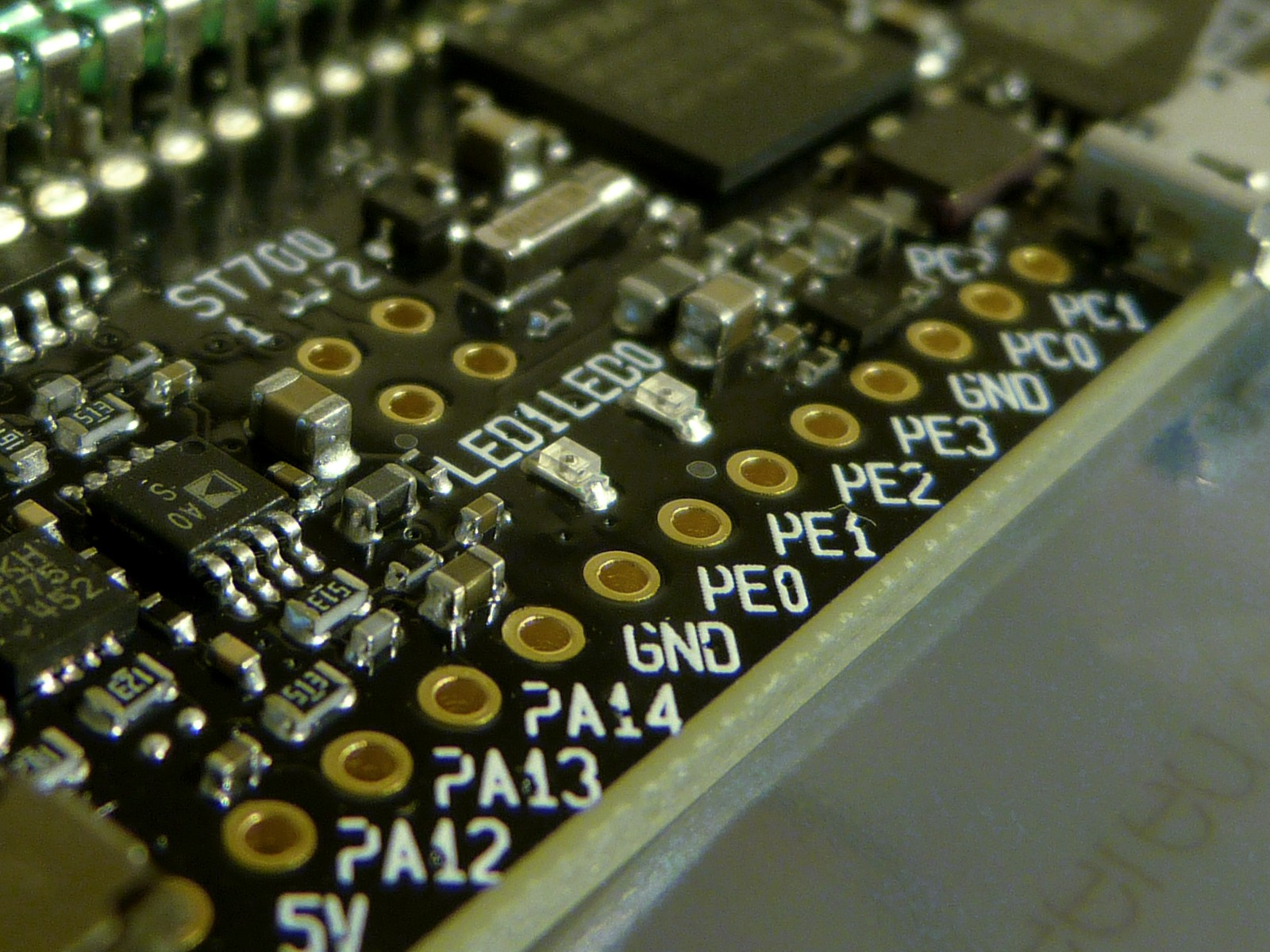 Image showing a row of through-holes which are the footprint for a pin header.